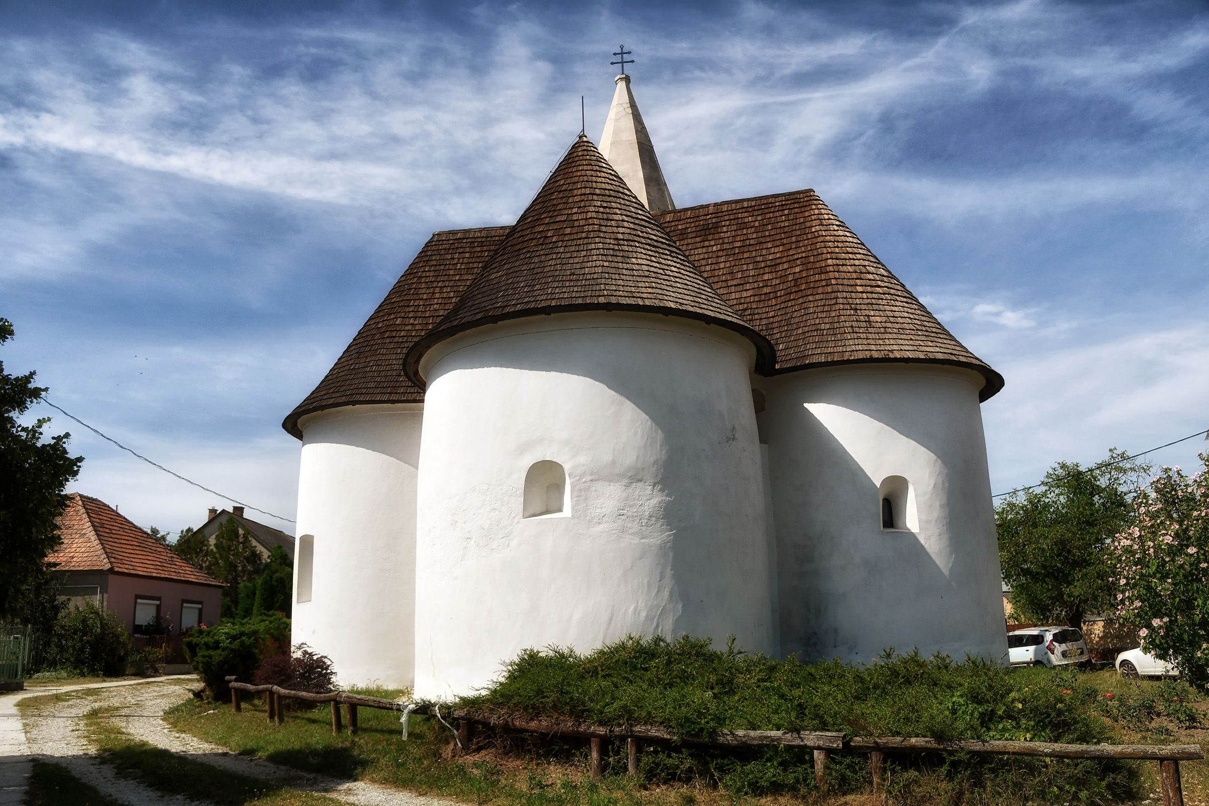 Saint Michael Church in Rábaszentmiklós, Hungary